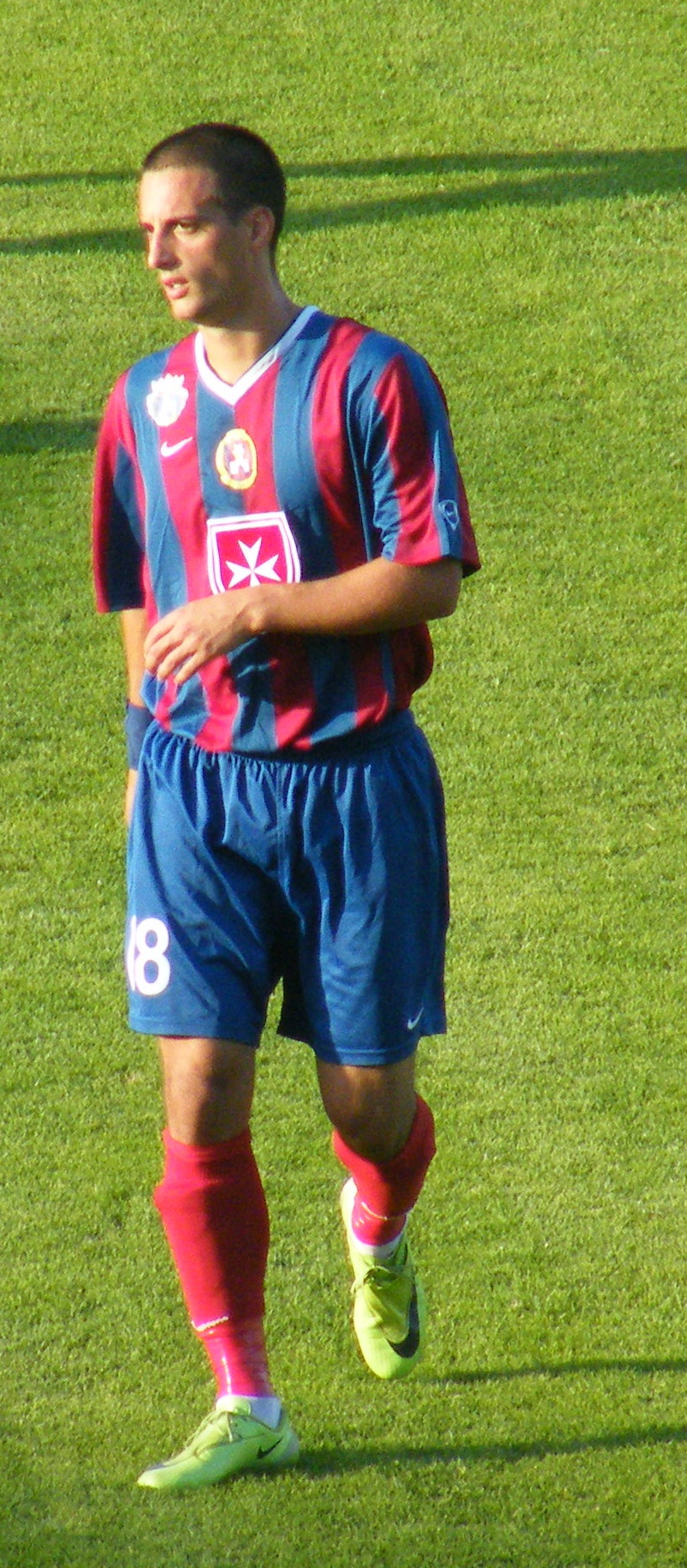 Goran Vujović Serbian football player